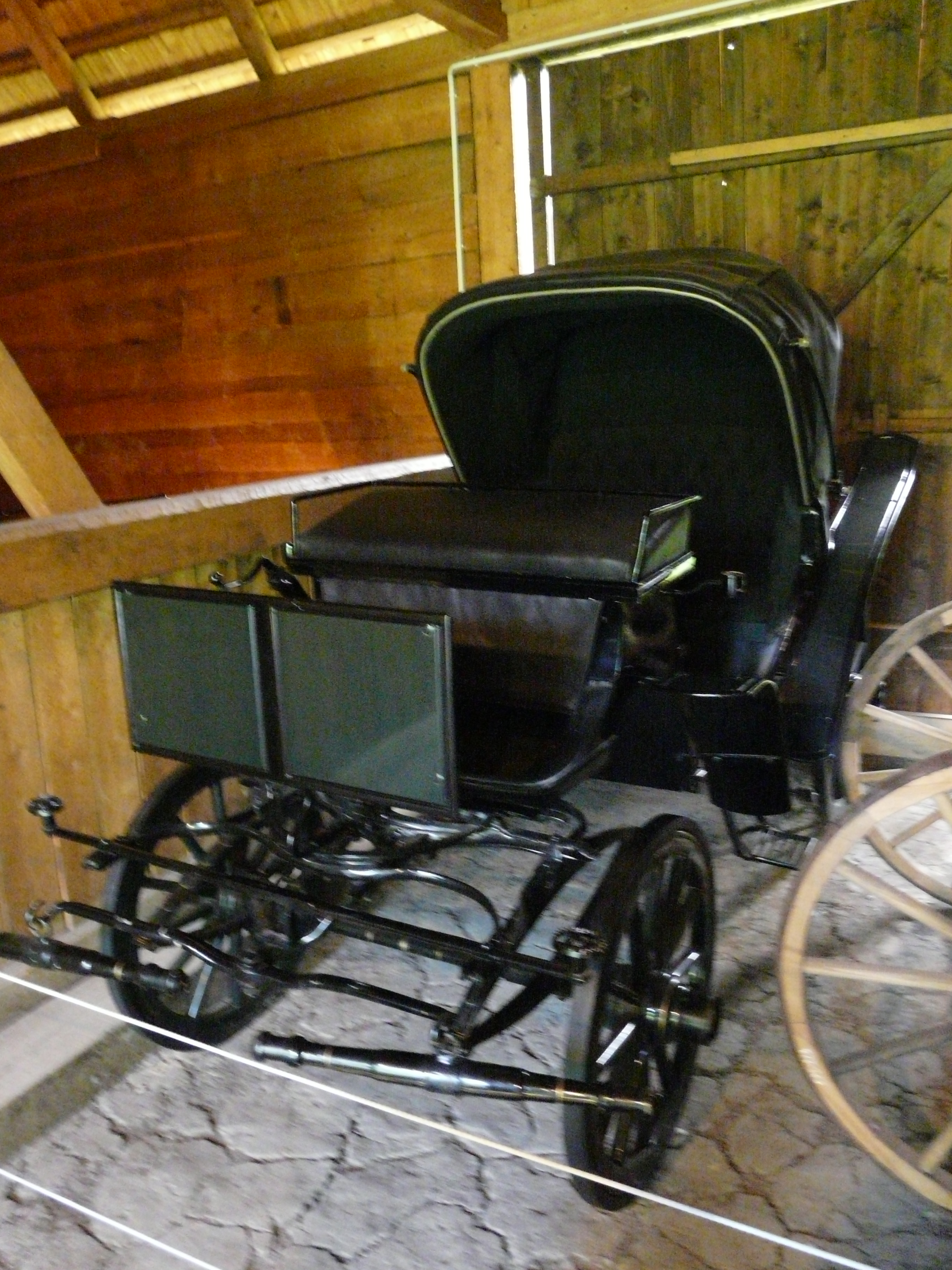 Upper Silesian Ethnographic Park